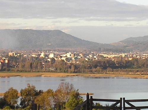 I took this photo with my camera. Who erased the older version?